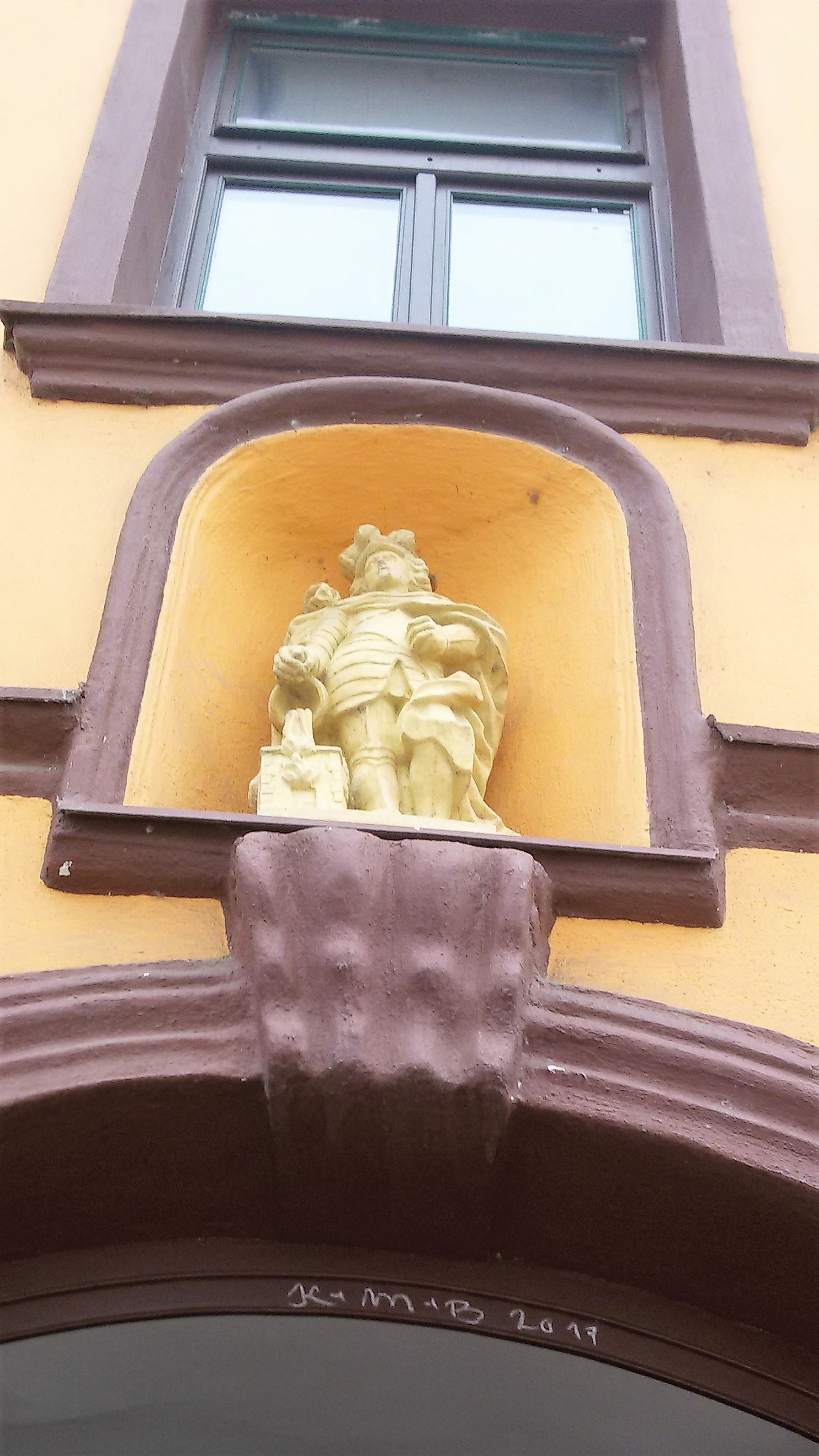 The house in Olomouc, Sokolska 534- the statue of St.Florian